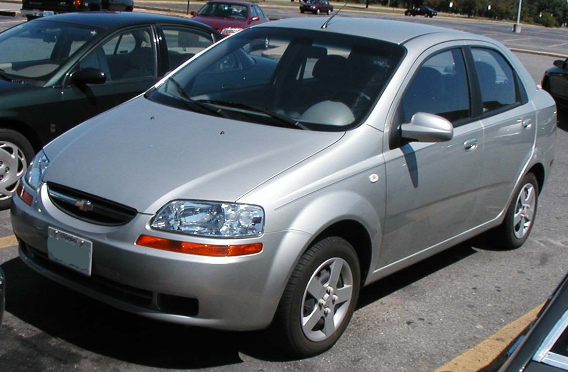 2004-2006 Chevrolet Aveo sedan photographed in USA.